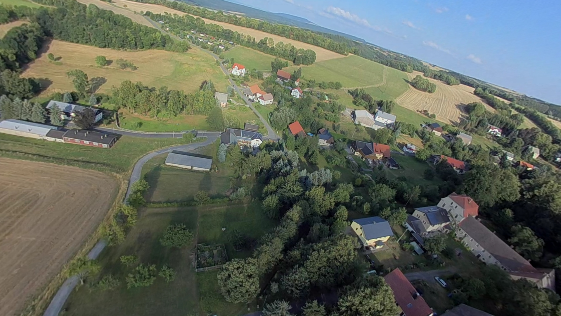 an aerial photo of the town Oelsen (part of Bad Gottleuba - Berggießhübel), taken during the relatively hot and dry summer of 2018